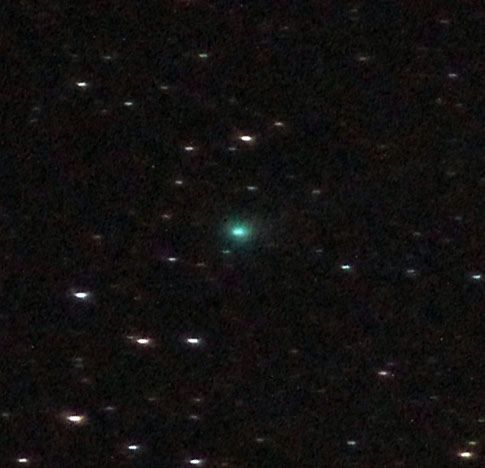 Comet C/2013 R1 as imaged with a Canon T3i mounted on a standard camera tripod using a 50mm f1.8 lens. (Exposure: f2.2, 8sec, 3200 ASA)